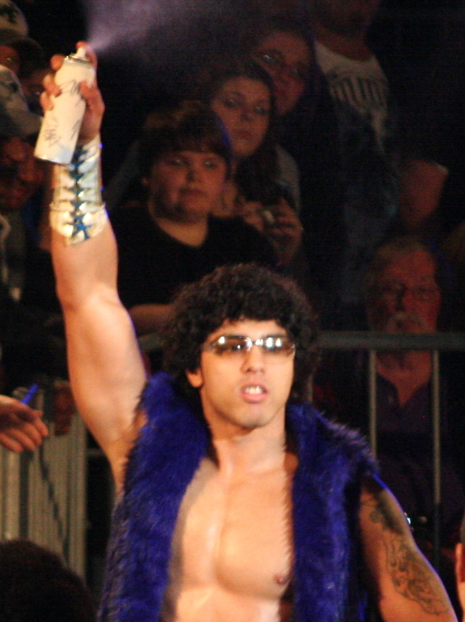 TNA star Zema Ion at a TNA house show in Florence, SC on February 3, 2011. Cropped from original.